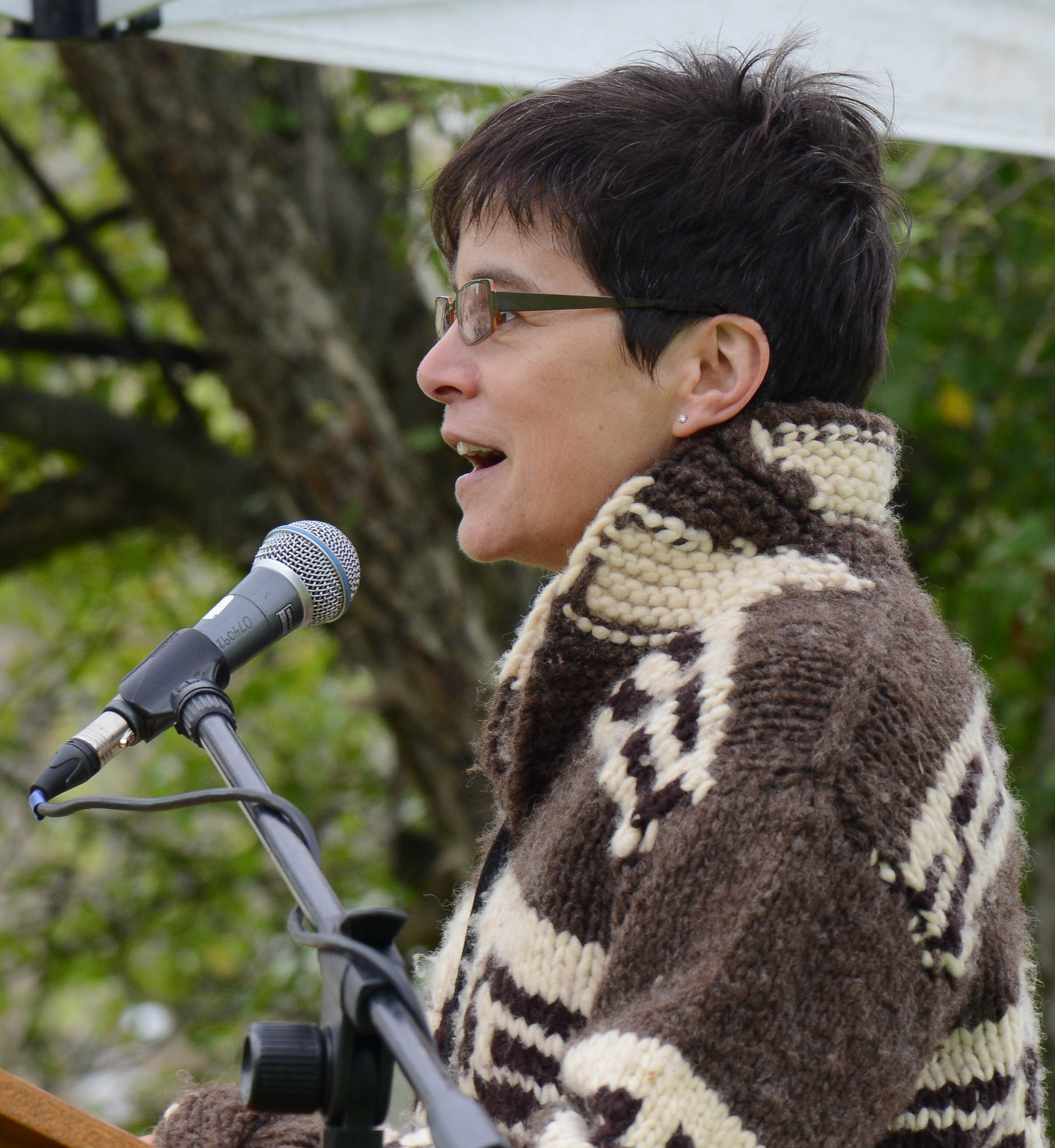 Anne Marie MacDonald at the Eden Mills Writers Festival in 2015